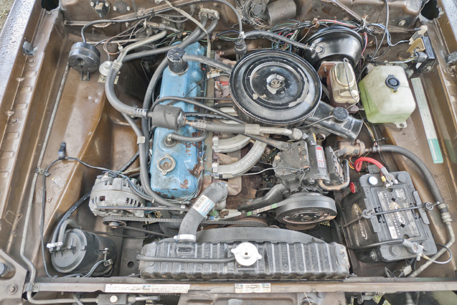 1973 Dodge Dart engine compartment with slant-6 engine, power brakes, and air conditioning